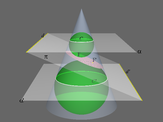 Conic Section (Ellipse)